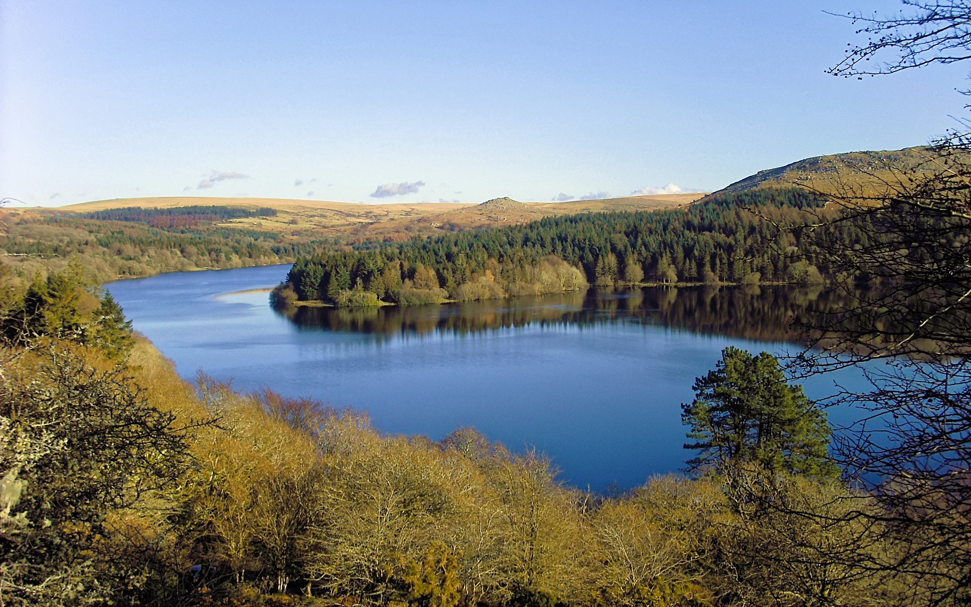 A view of Burrator reservoir on Dartmoor, England on a cold winter's day.